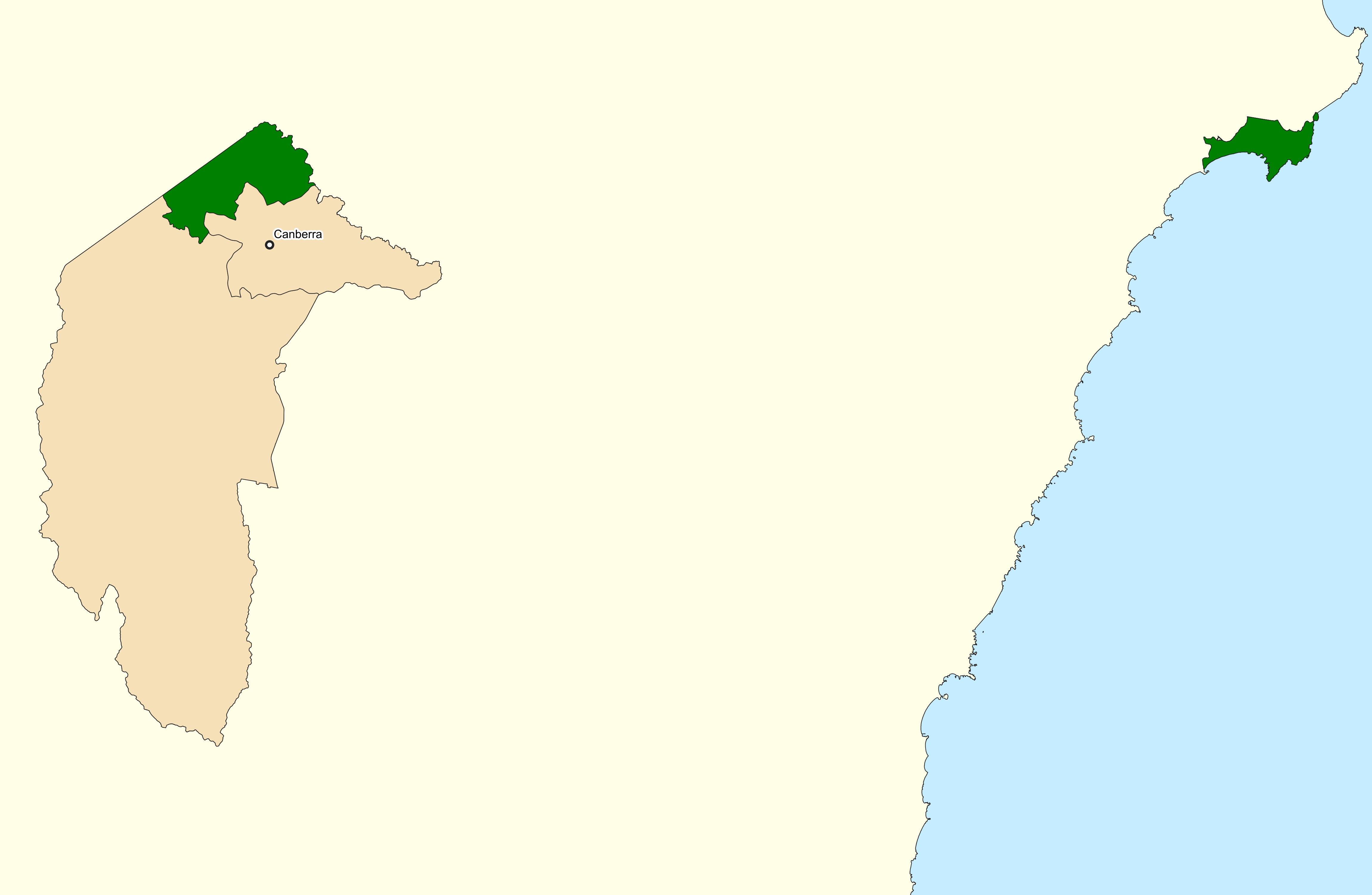 Location of the Australian federal electoral division of Fenner (dark green) in the Australian Capital Territory (including the Jervis Bay Territory) as of the 2019 Australian federal election. Incorporates or developed using Administrative Boundaries ©PSMA Australia Limited licensed by the Commonwealth of Australia under Creative Commons Attribution 4.0 International licence (CC BY 4.0).